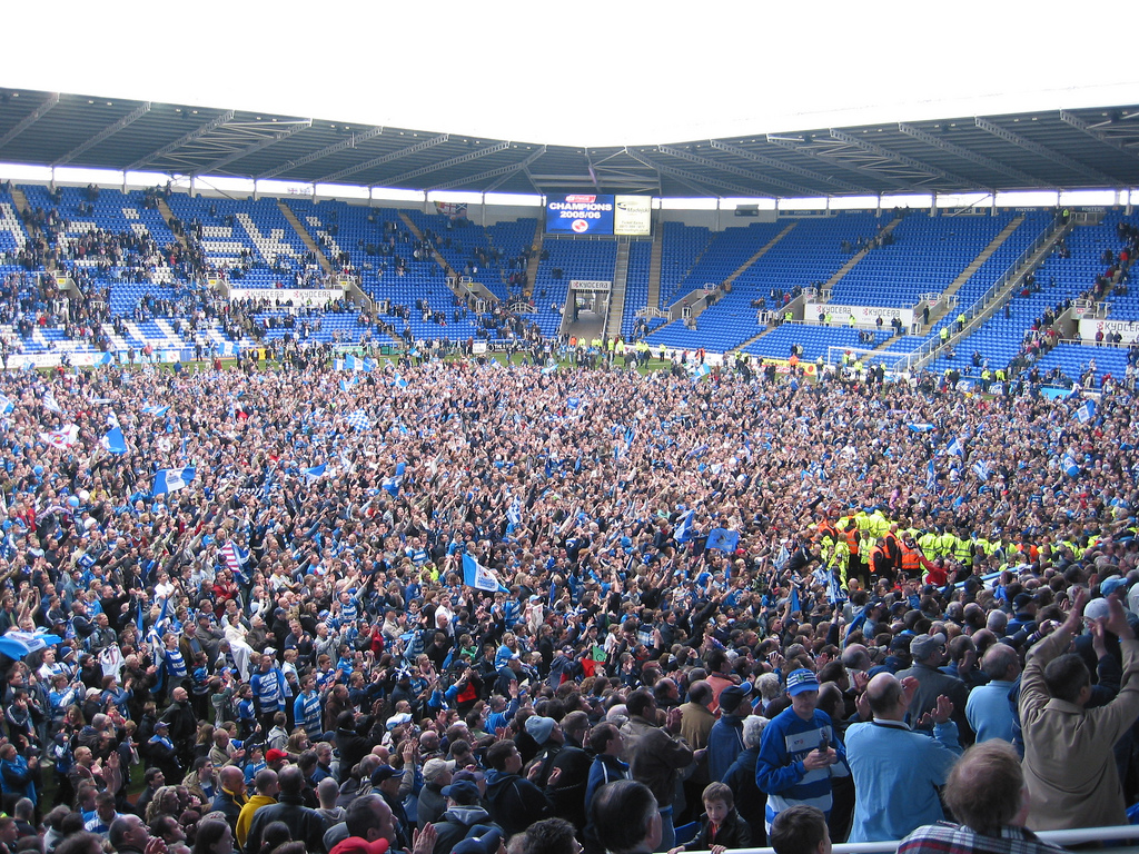 Reading football team fans celebrate their team winning the 2005/06 Championship. I've got a few more photos, leave a comment if you'd like me to upload the rest from that day.